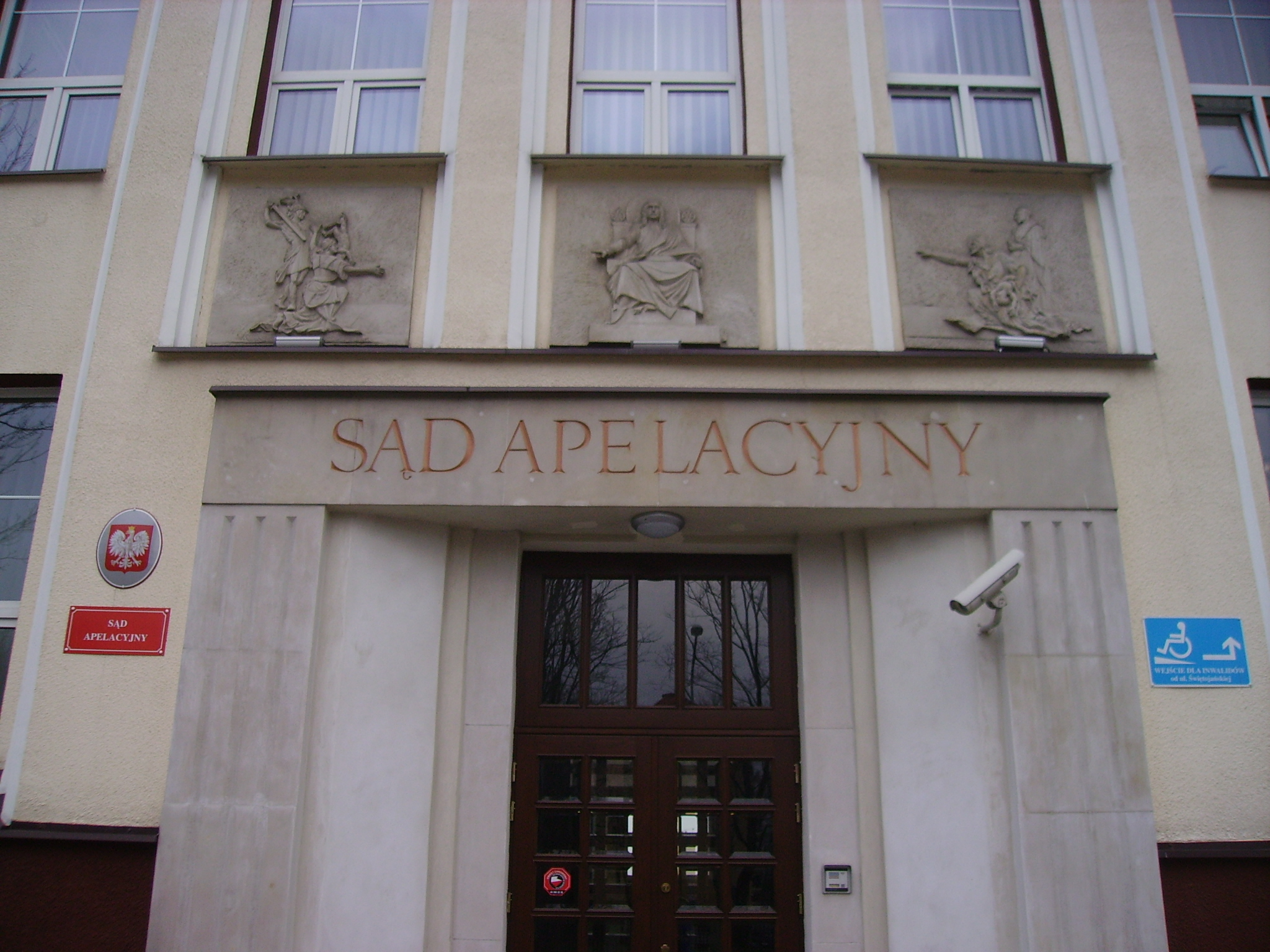 The Court of Appeal in Białystok, 5 MIckiewicza Street.